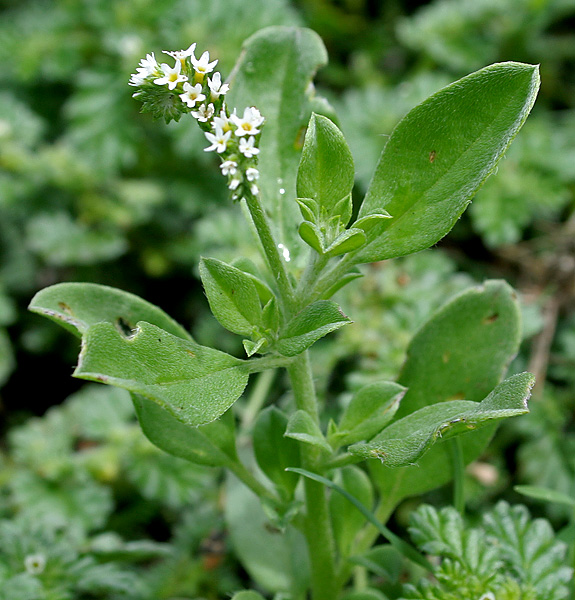 Heliotropium ovalifolium - Grey Leaf Heliotrope • Hindi: Kunden- at Pocharam lake, Andhra Pradesh, India.